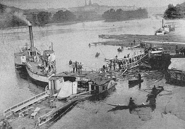 Raddampfer František Josef I. nach der Explosion